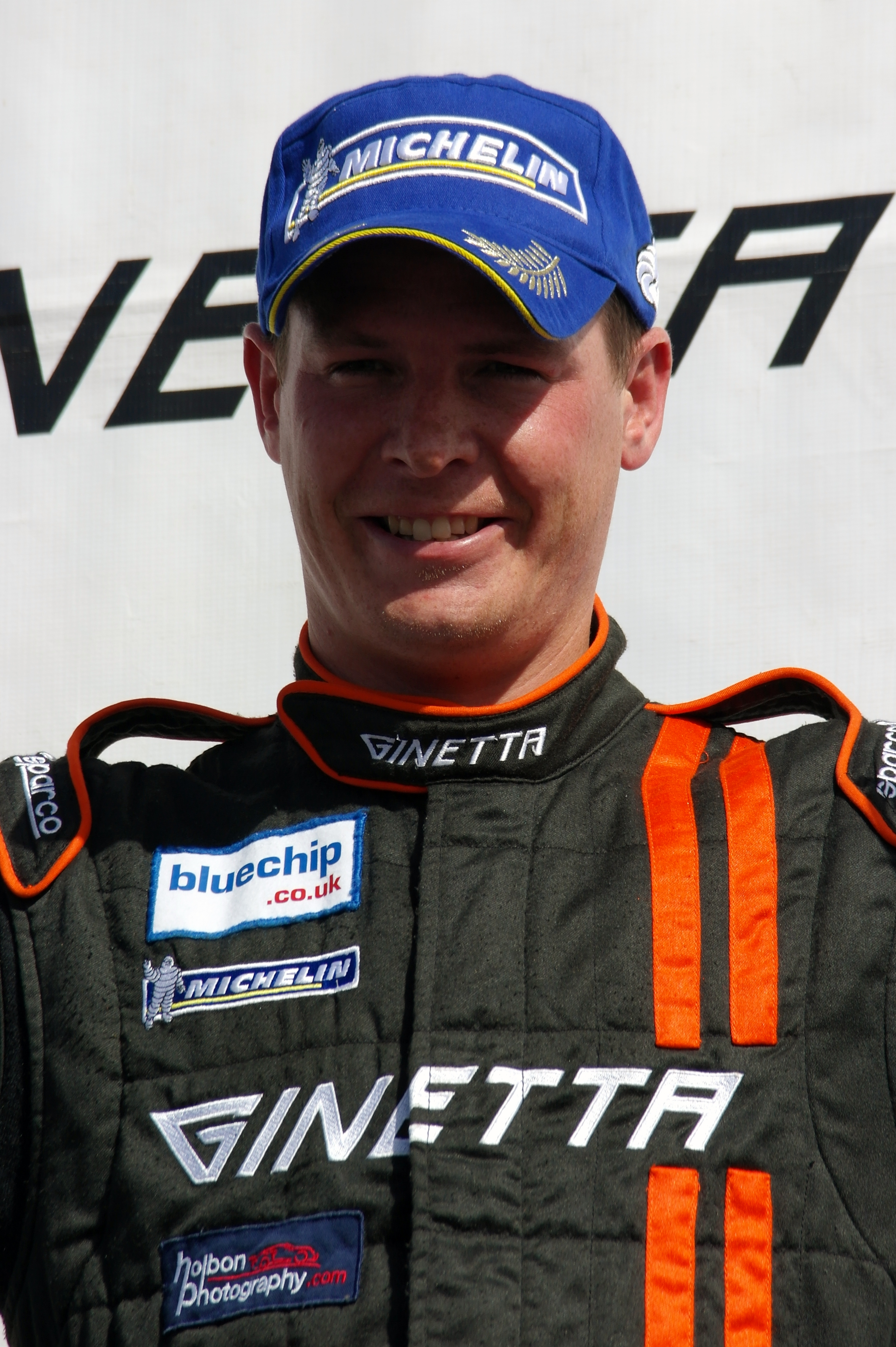 Carl Breeze as a driver for Tollbar Racing in the 2012 Ginetta GT Supercup season at Donington Park, April 2012.